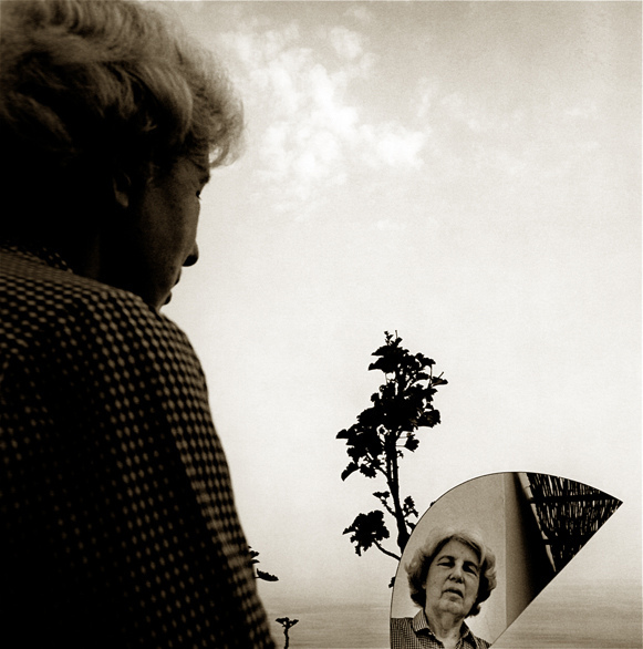 Elena Croce portrait